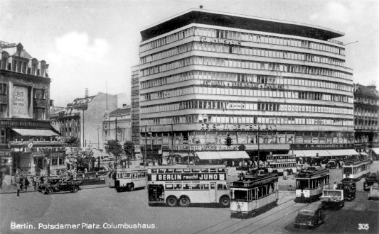 Das Columbushaus